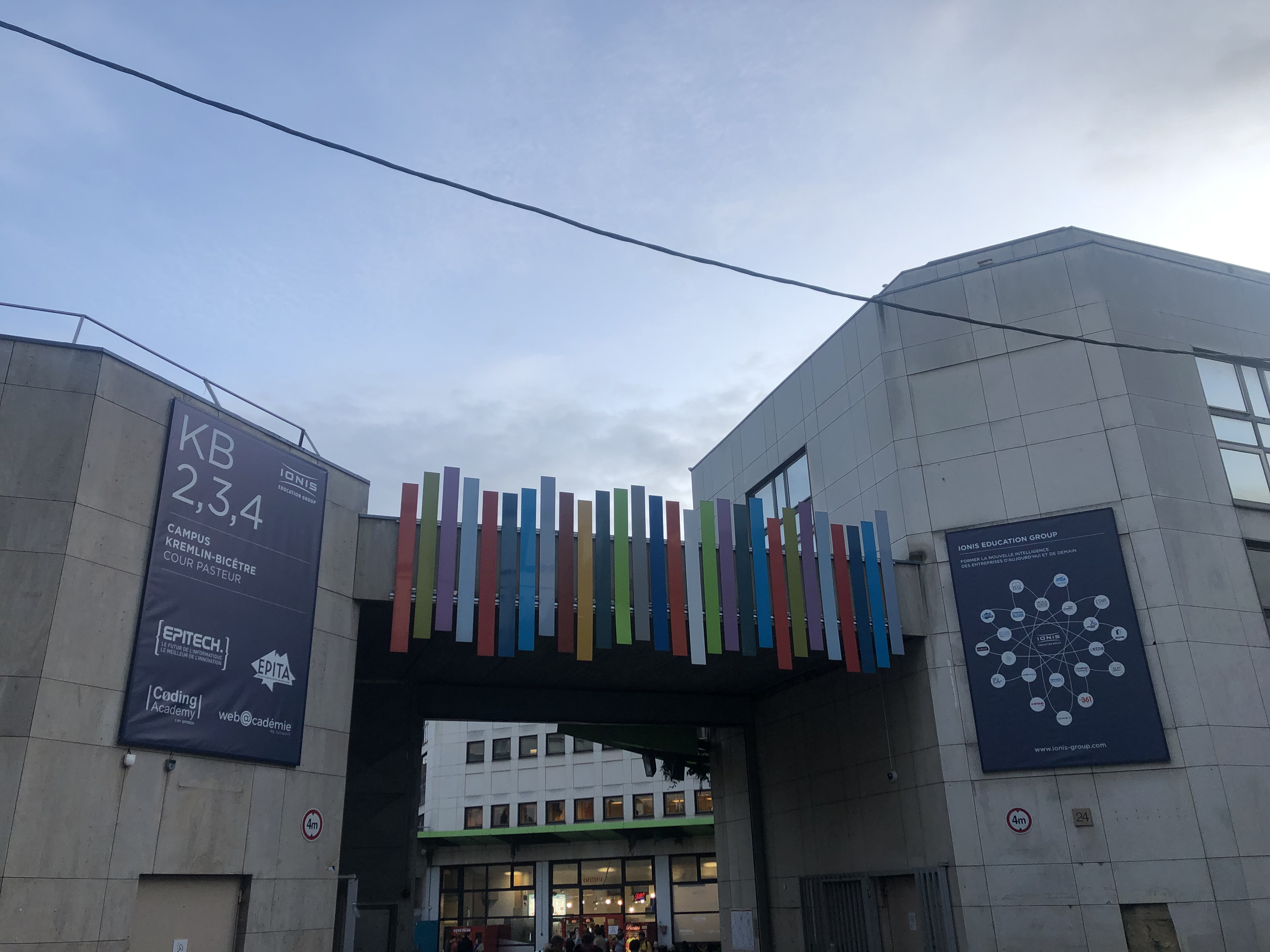 Paris Campus of EPITECH, European Institute of Technology, member of IONIS Education Group